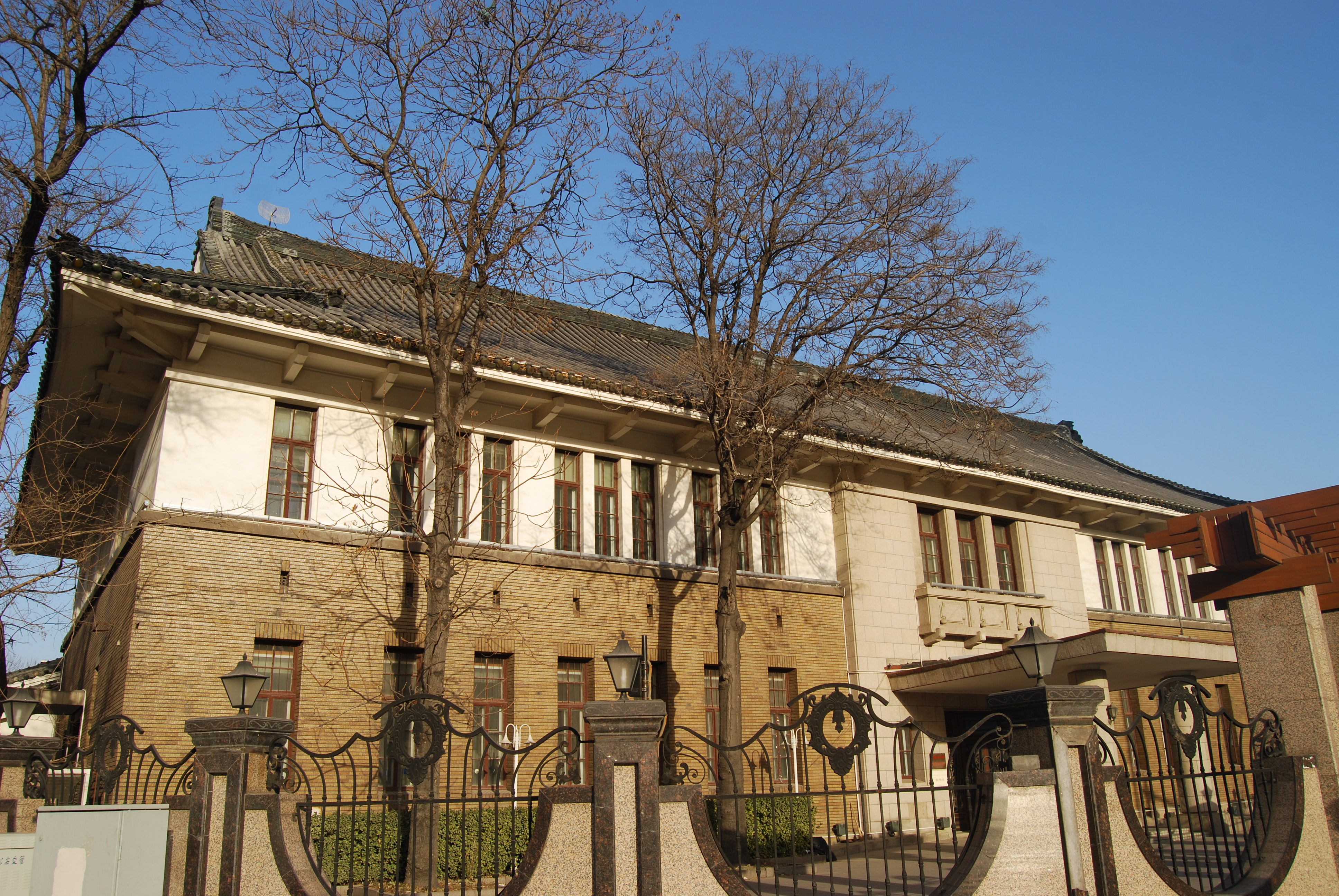 The Former Japanese Pavilion (Wudedian) in Nanjing Lu No. 228, Heping District, Tianjin